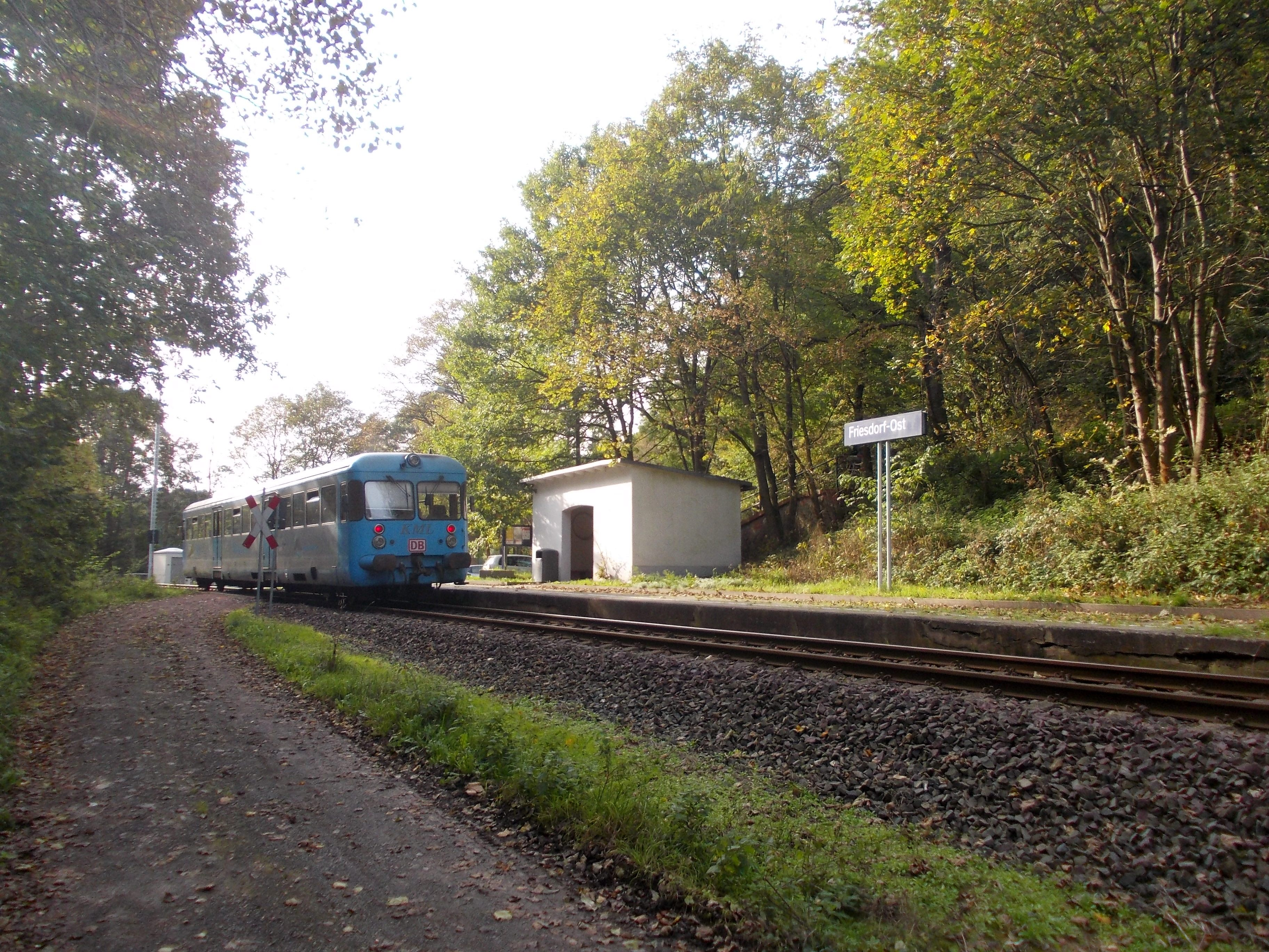 Friesdorf Ost train station in Rammelburg (Mansfeld, Mansfeld-Südharz district, Saxony-Anhalt)